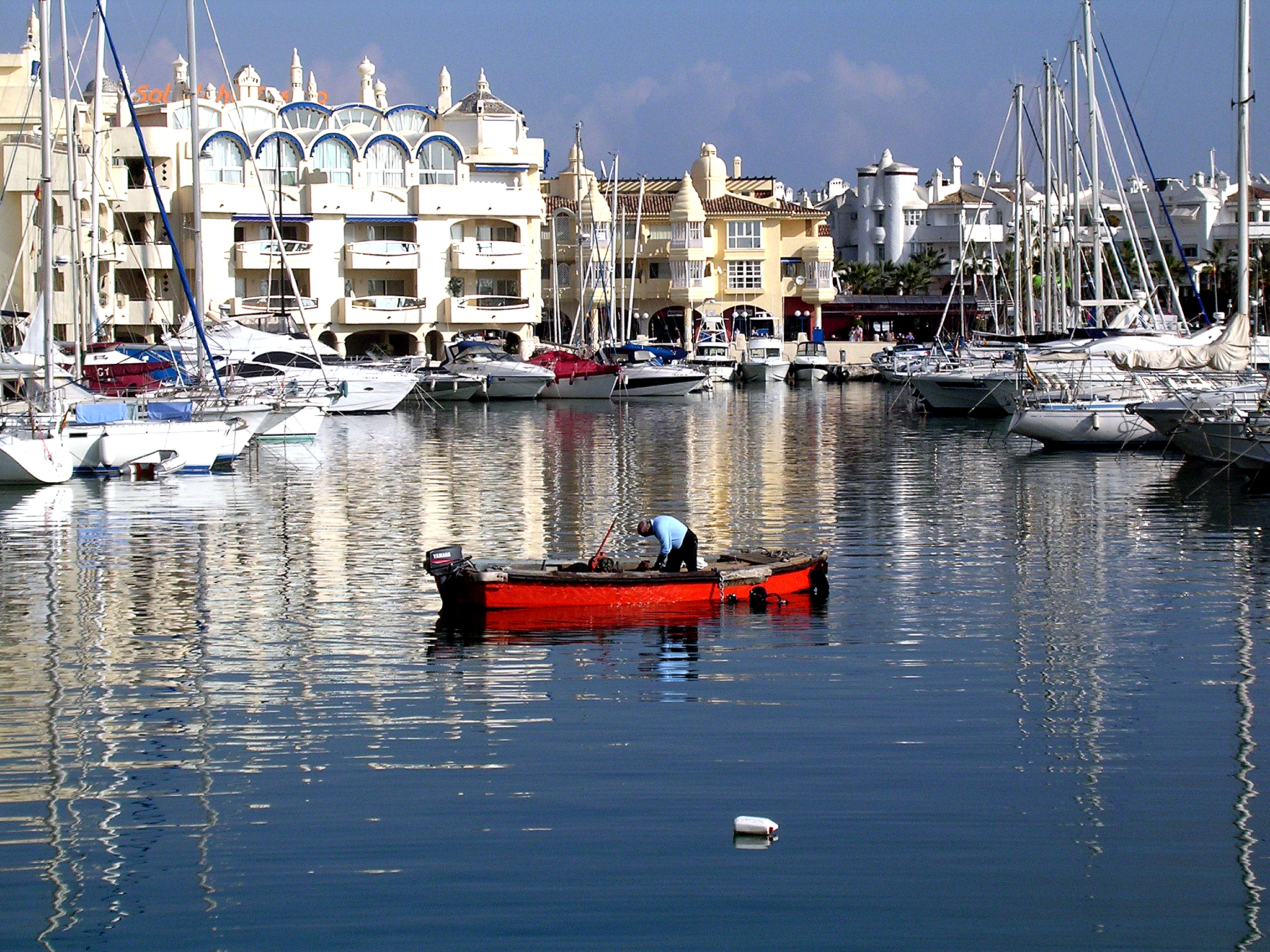 Harbour of Benalmádena, Málaga, Spain